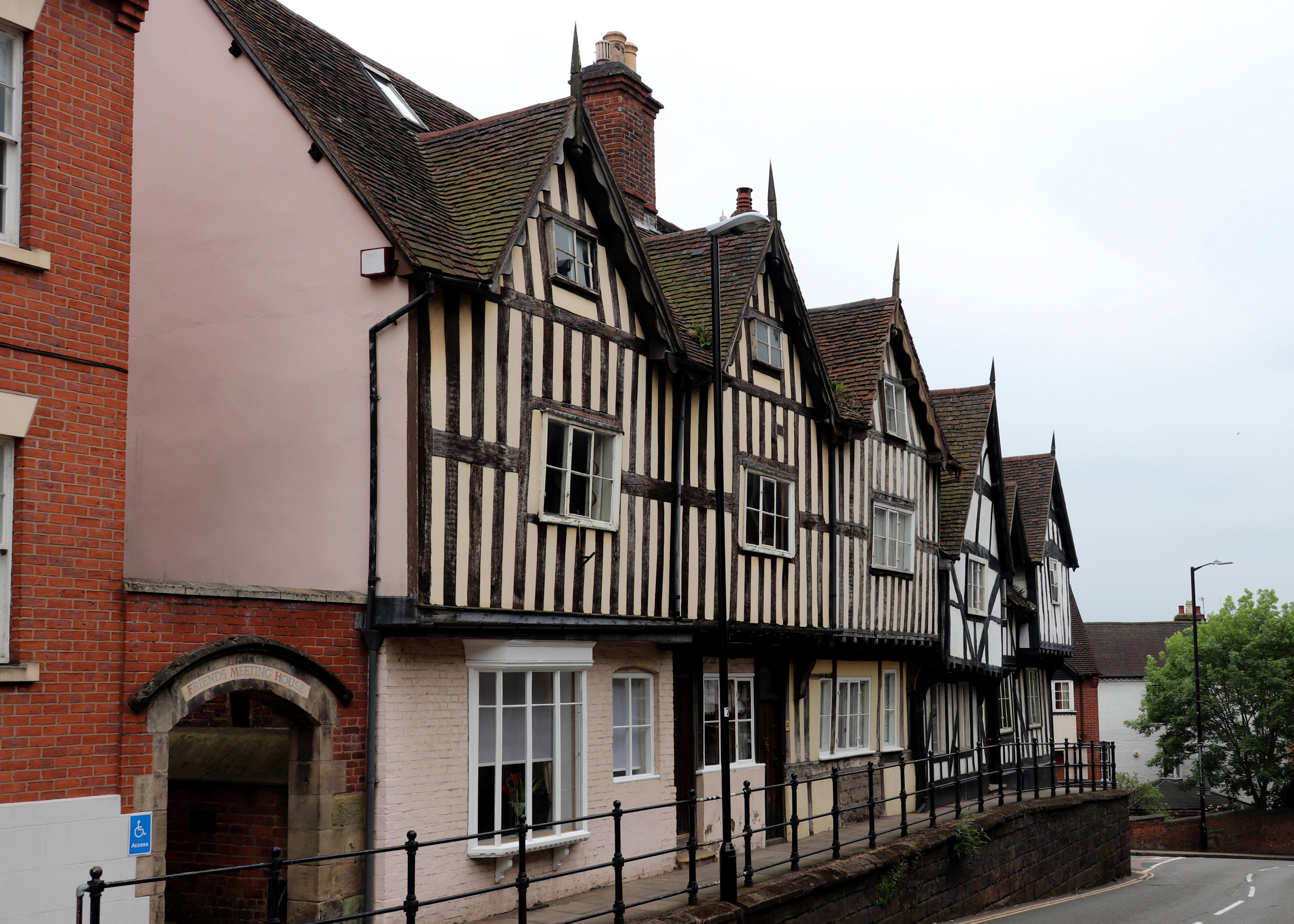 Elizabethan houses opposite Lord Leycester Hospital, Warwick